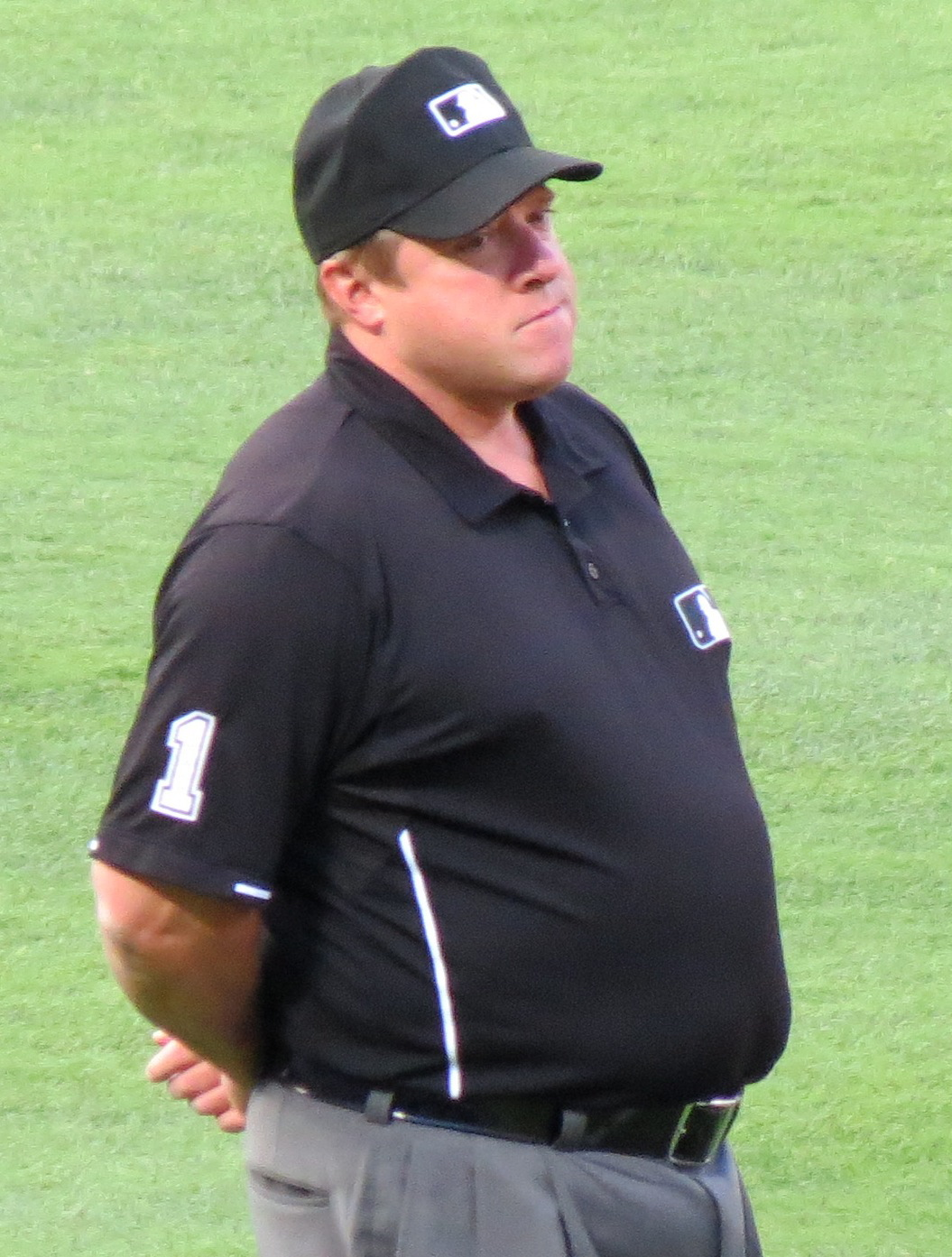 MLB Umpire Bruce Dreckman – San Francisco Giants at Atlanta Braves, June 14, 2013.